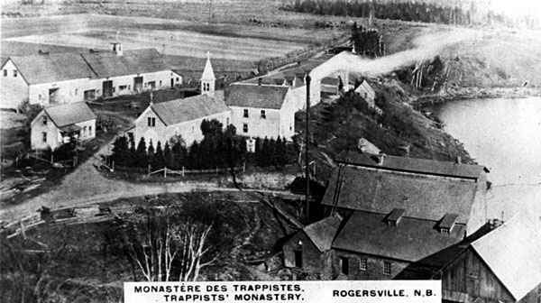 Postcard looking down on Trappist monastery buildings in Rogersville, circa 1920.